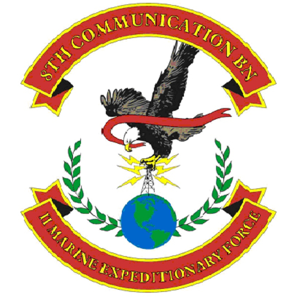 Squadron insignia for 8th Communications Battalion